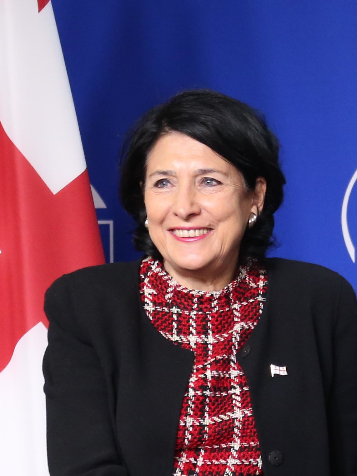 Georgian President Salome Zourabichvili and European Parliament President Antonio Tajani shaking hands in Brussels in January 2019.